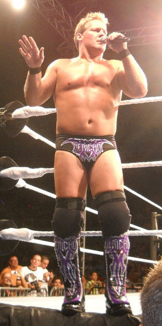 Chris Jericho at a Raw house show in Puerto Rico.